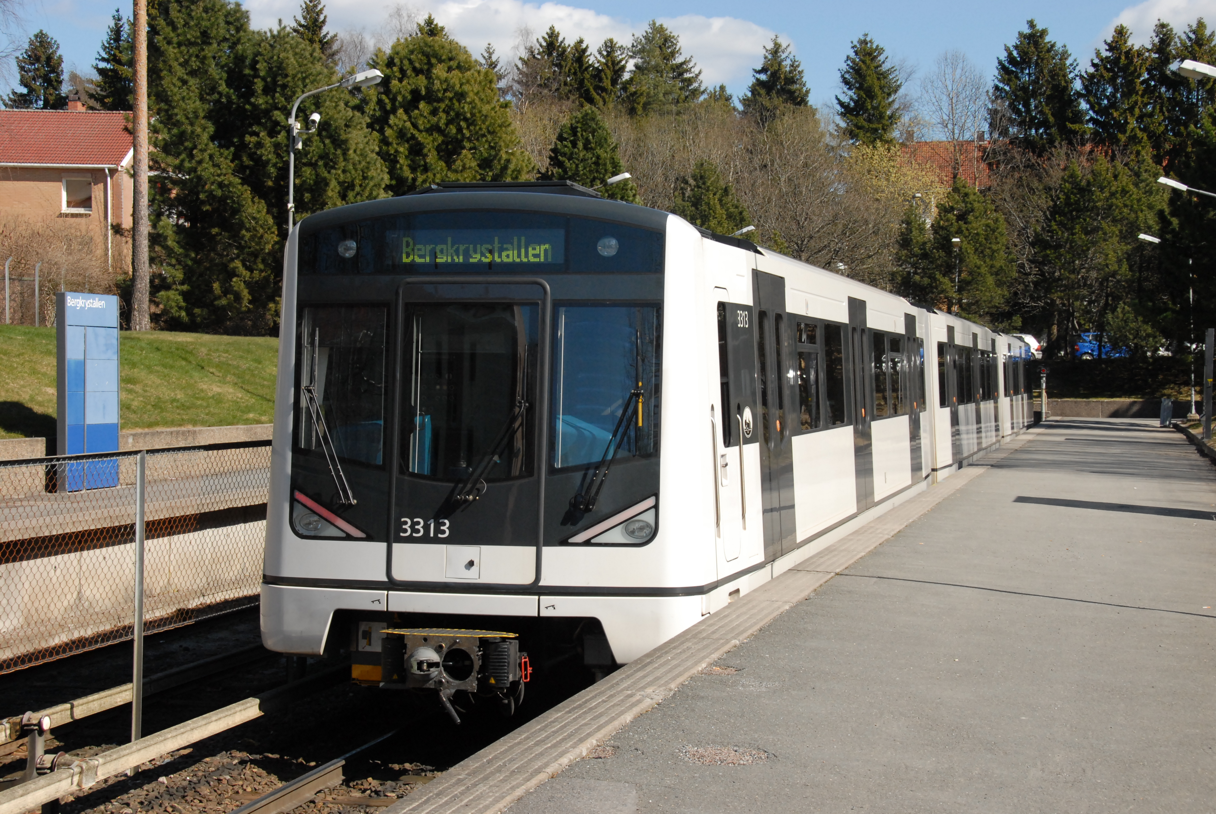 MX3000-train at Bergkrystallen Station